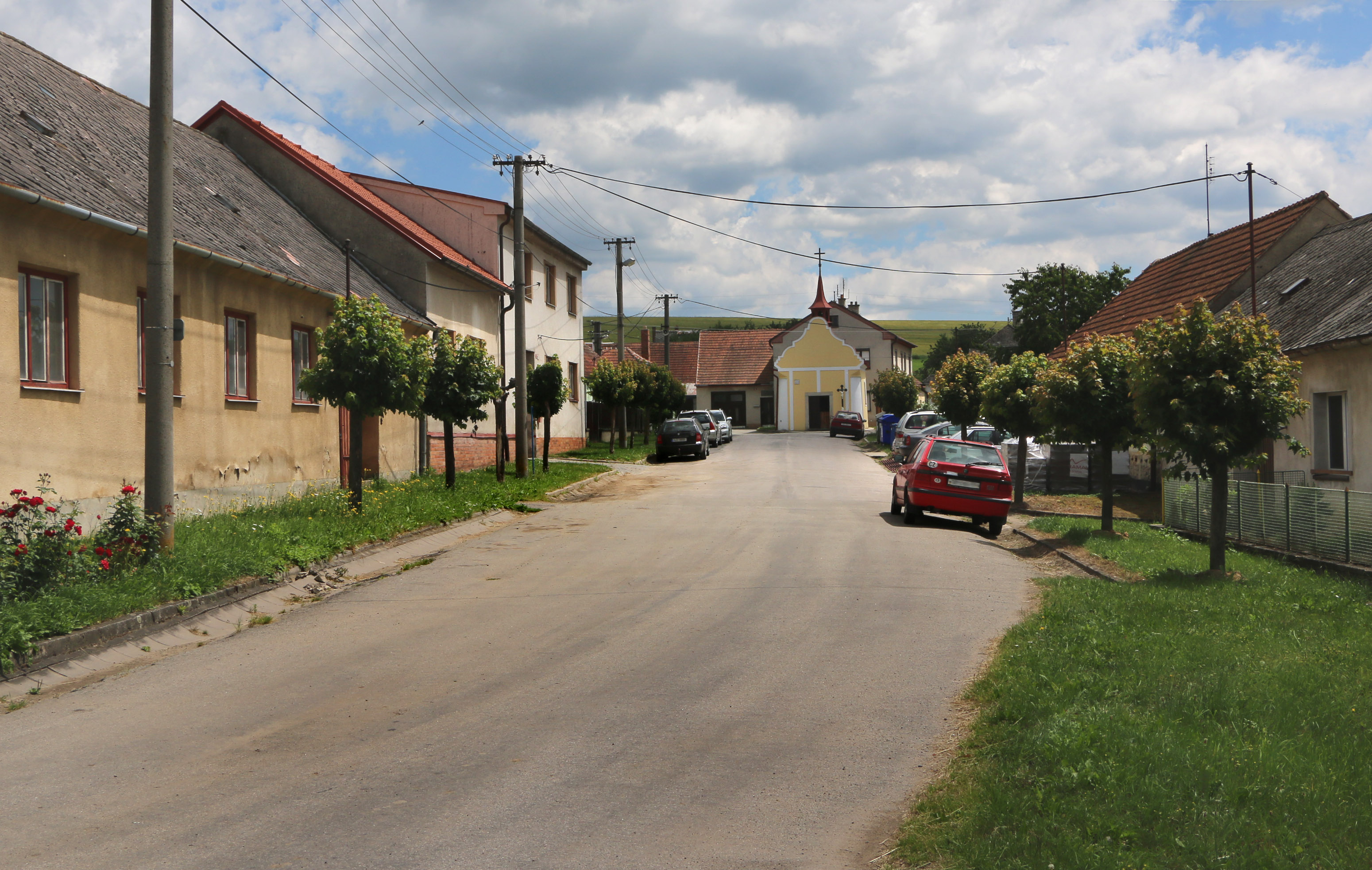 Main street in Sedlatice, Czech Republic.